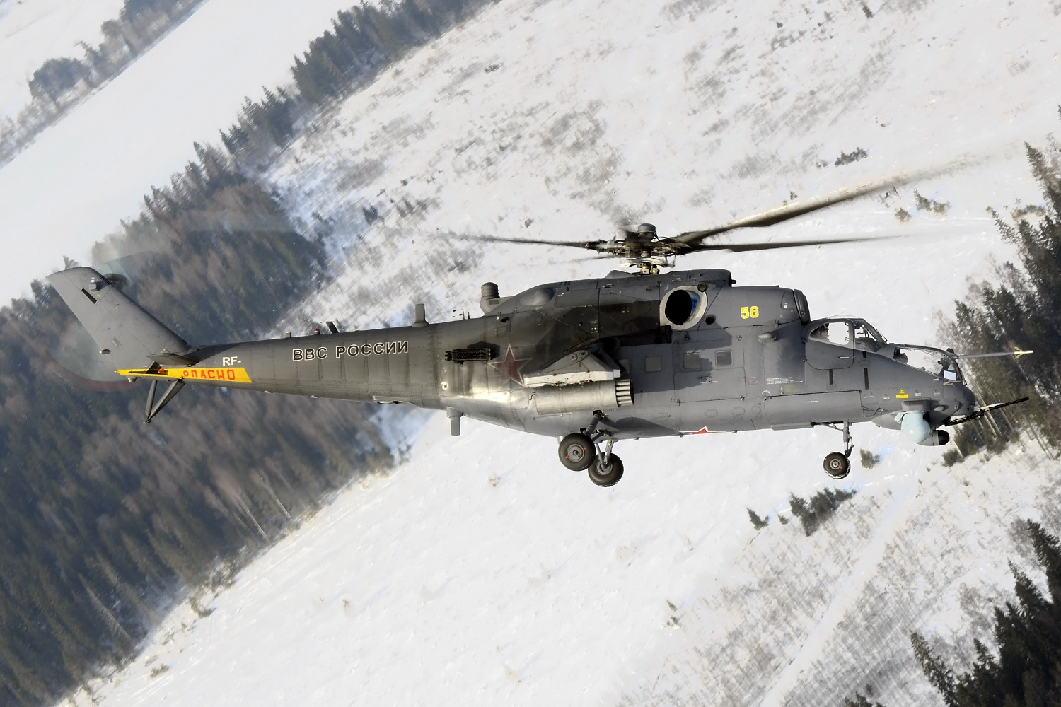 Mil Mi-35M (54 yellow)